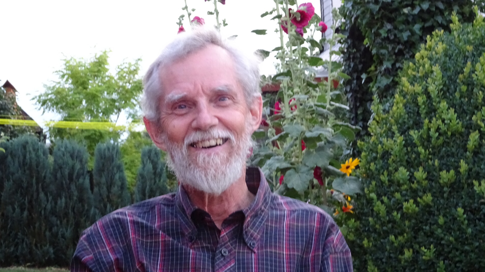 Photo of Prof. Dr. Albrecht Classen, July 2019, Marienberg, Germany